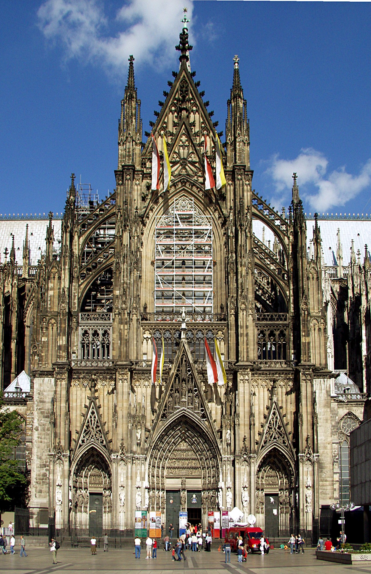 Southern porch of Cologne Cathedral during pilgrimage 2006